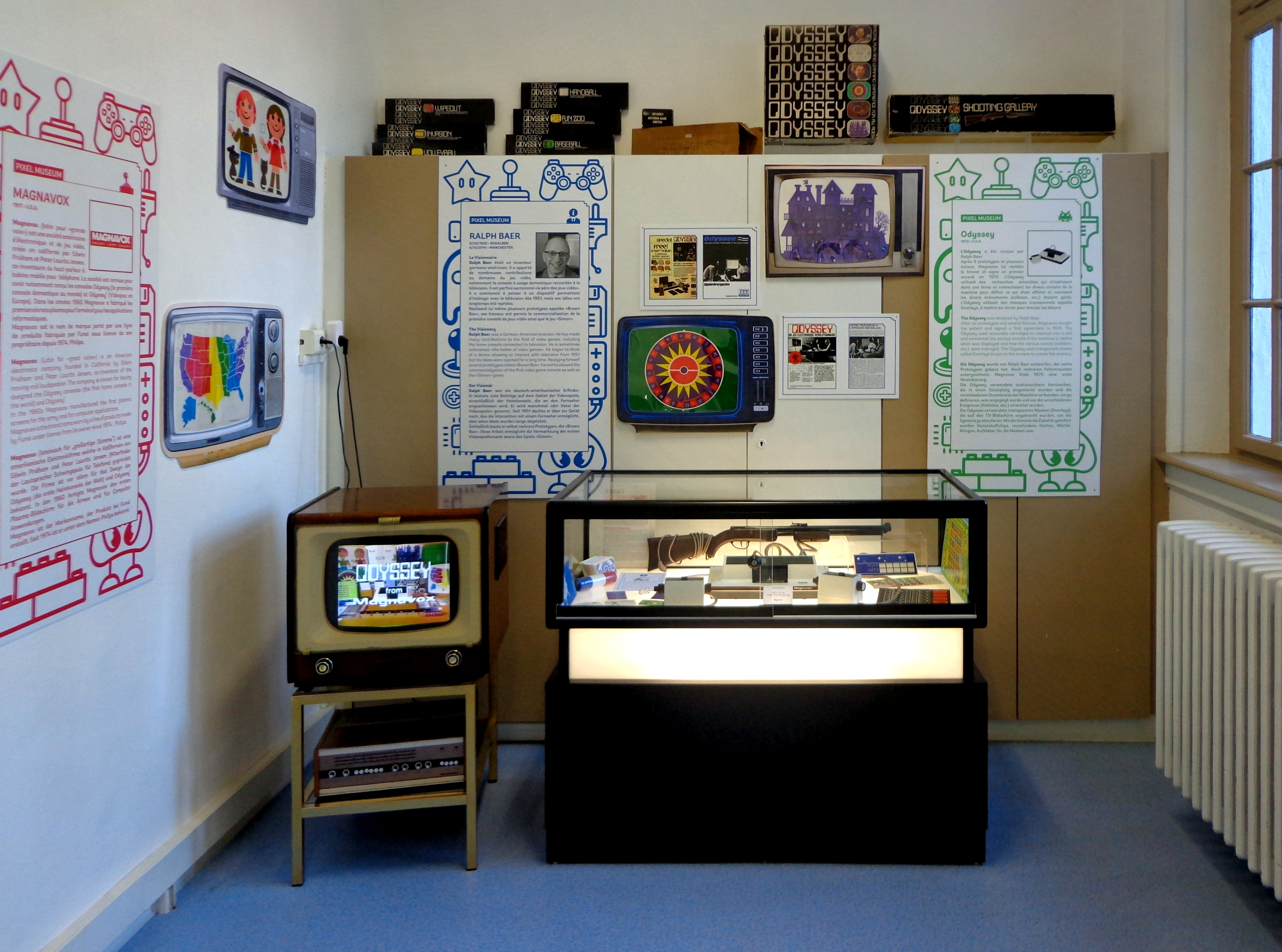 The Pixel Museum in Schiltigheim (a suburb of Strasbourg, France), is dedicated to the history of video games.